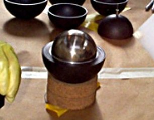 neptunium 237 sphere (6 kg)